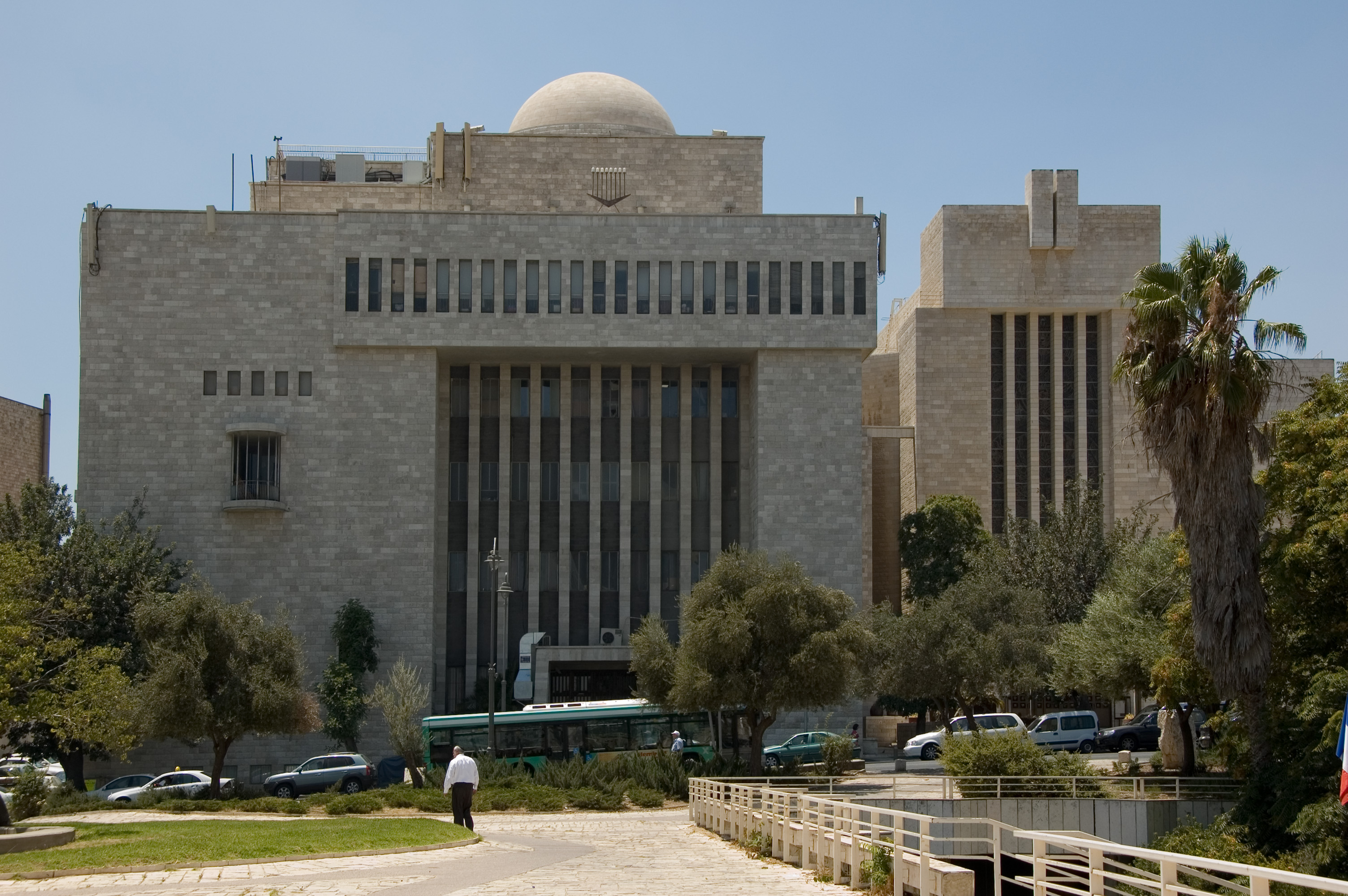 the large building wih the dome is Heichal Shlomo, the seat of the chief Rabbinate of Israel. On the right is the Great Synagogue, Jerusalem